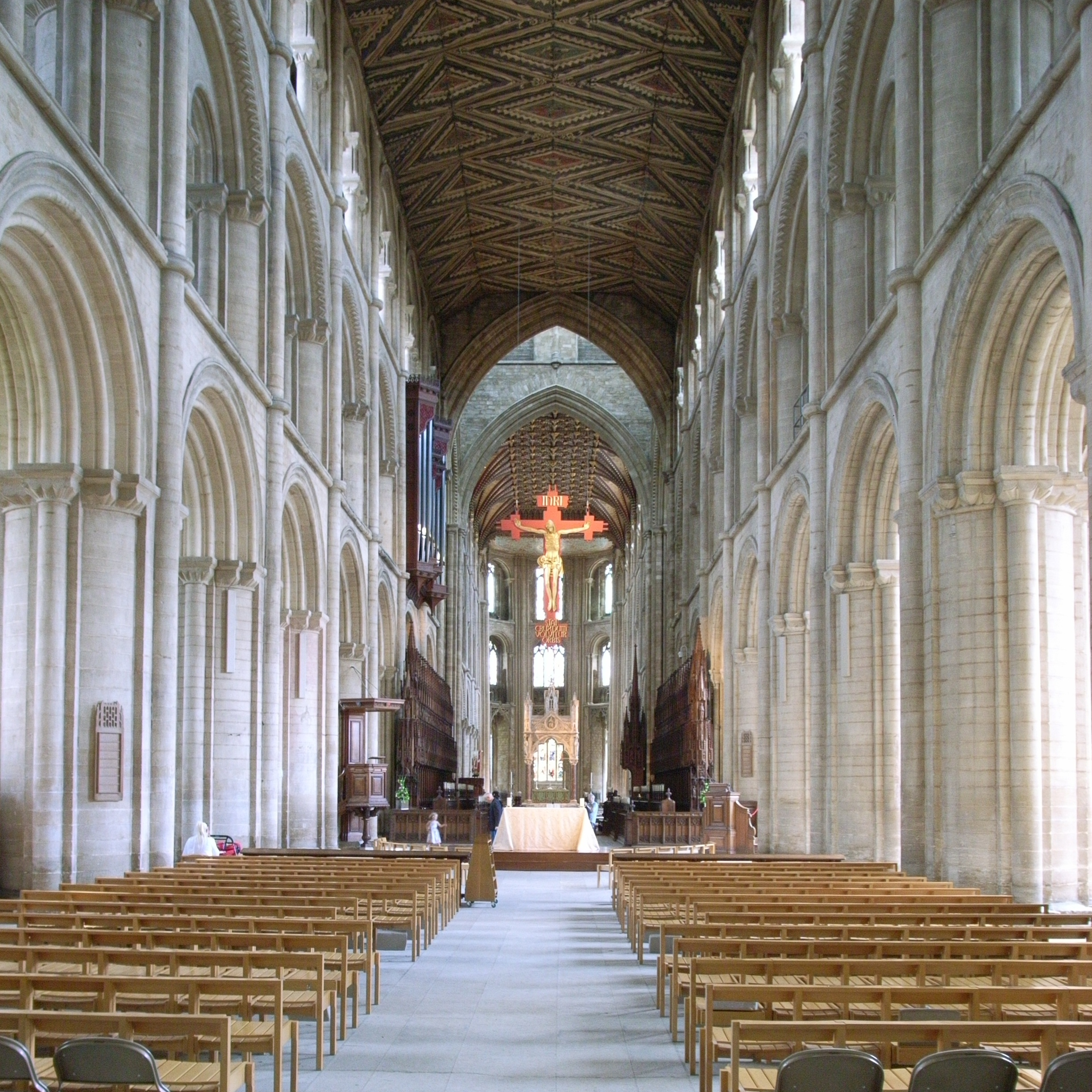 Peterborough Cathedral - the nave